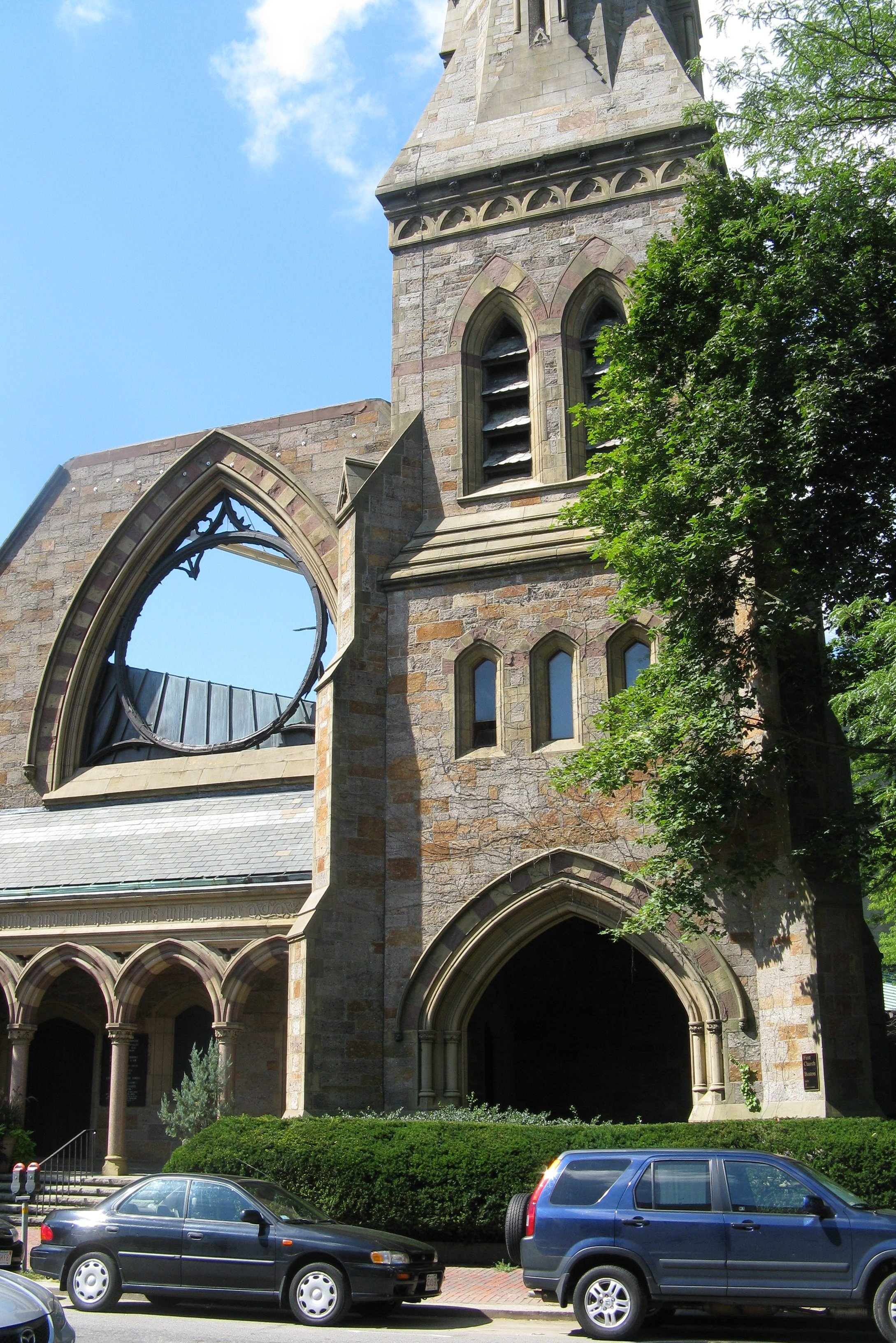 Back Bay Historic District, Boston Massachusetts